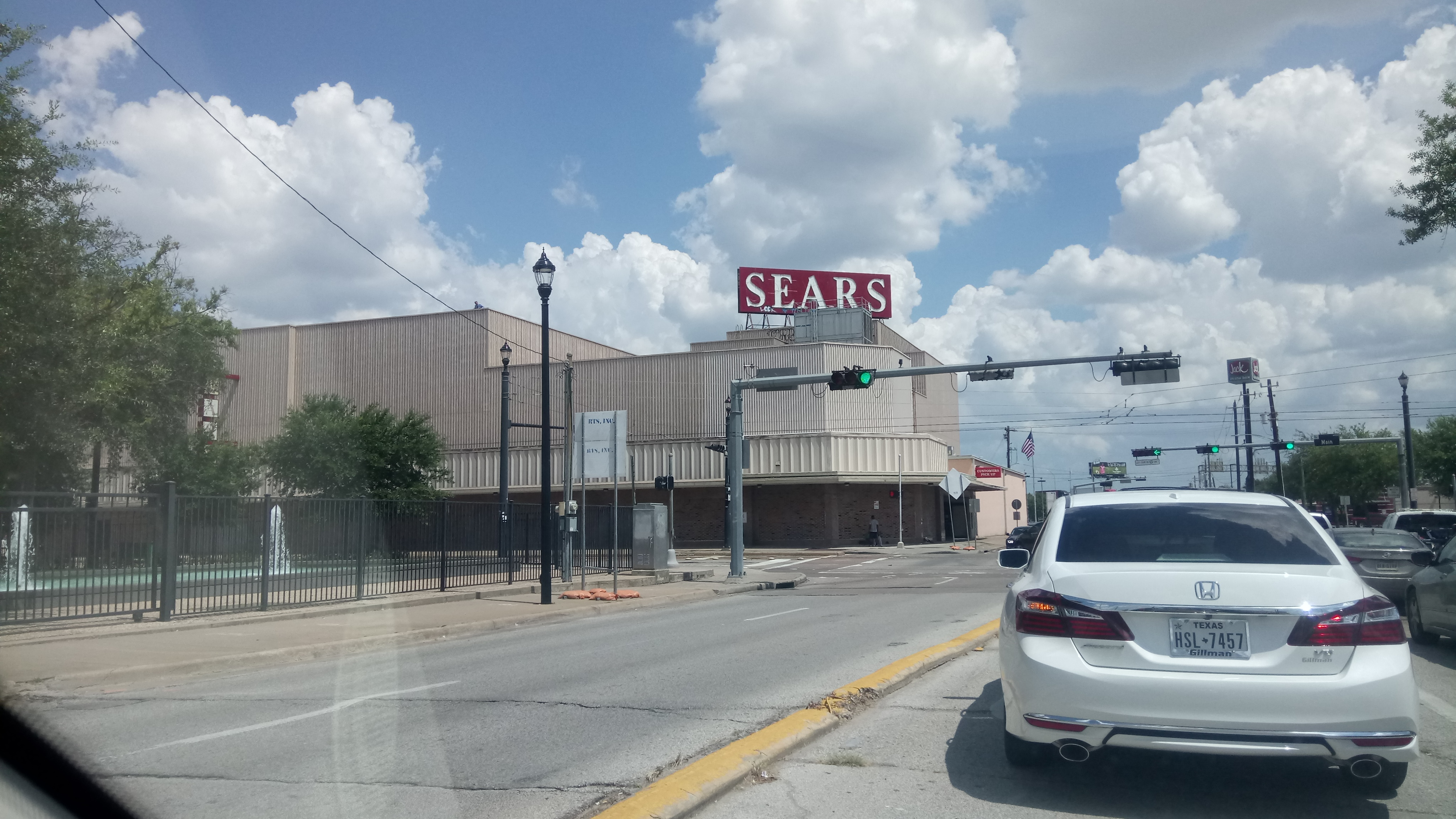 Sears store in Midtown Houston